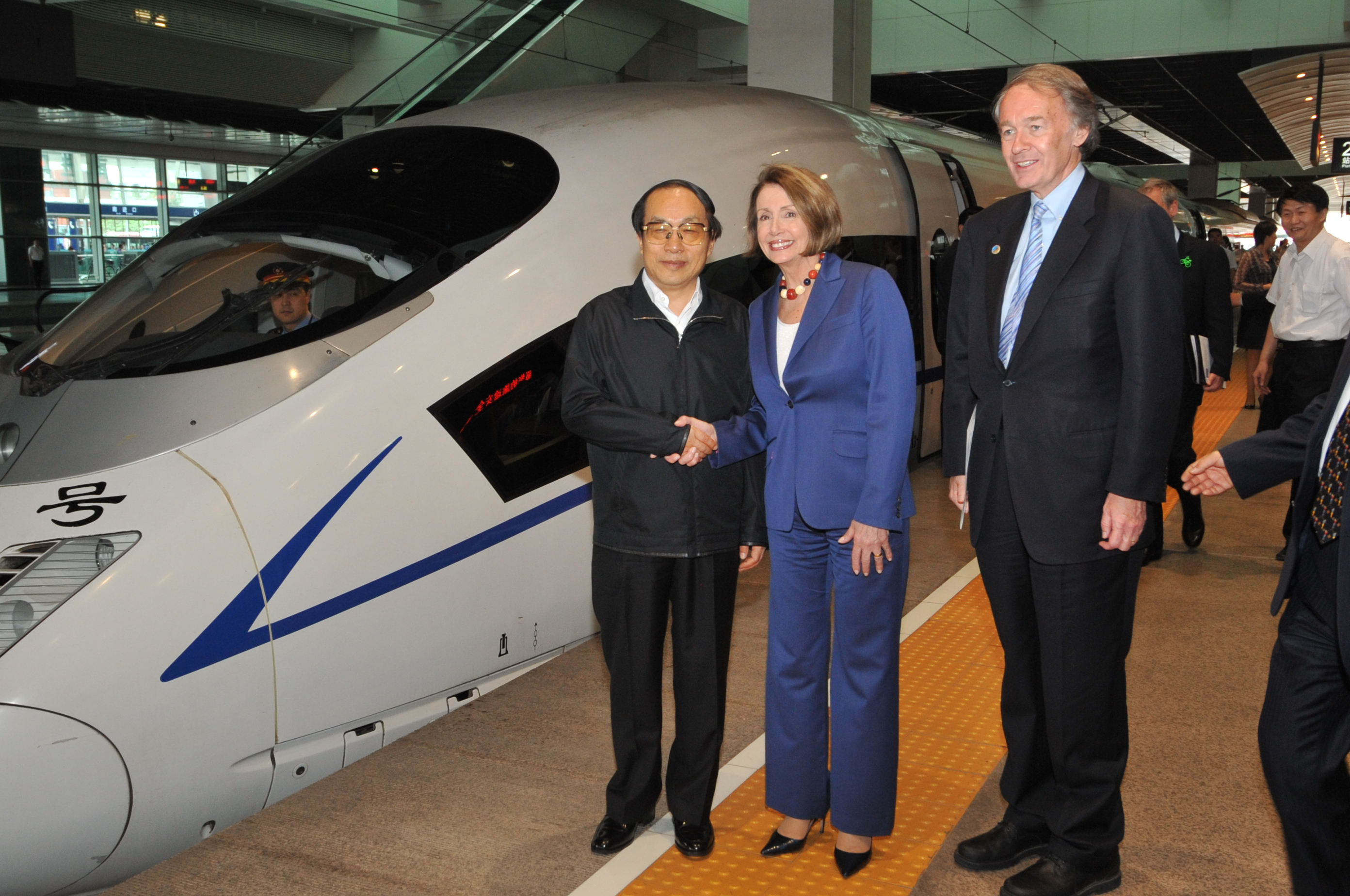 Speaker Pelosi and Rep. Ed Markey, of the US House of Representatives, with a high speed train. The Beijing to Tianjin line opened in August of 2008 and can go more than 200 miles per hour (320 km/h).